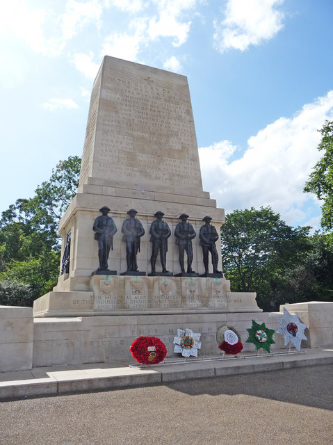 War memorial as seen from Horseguards Parade.